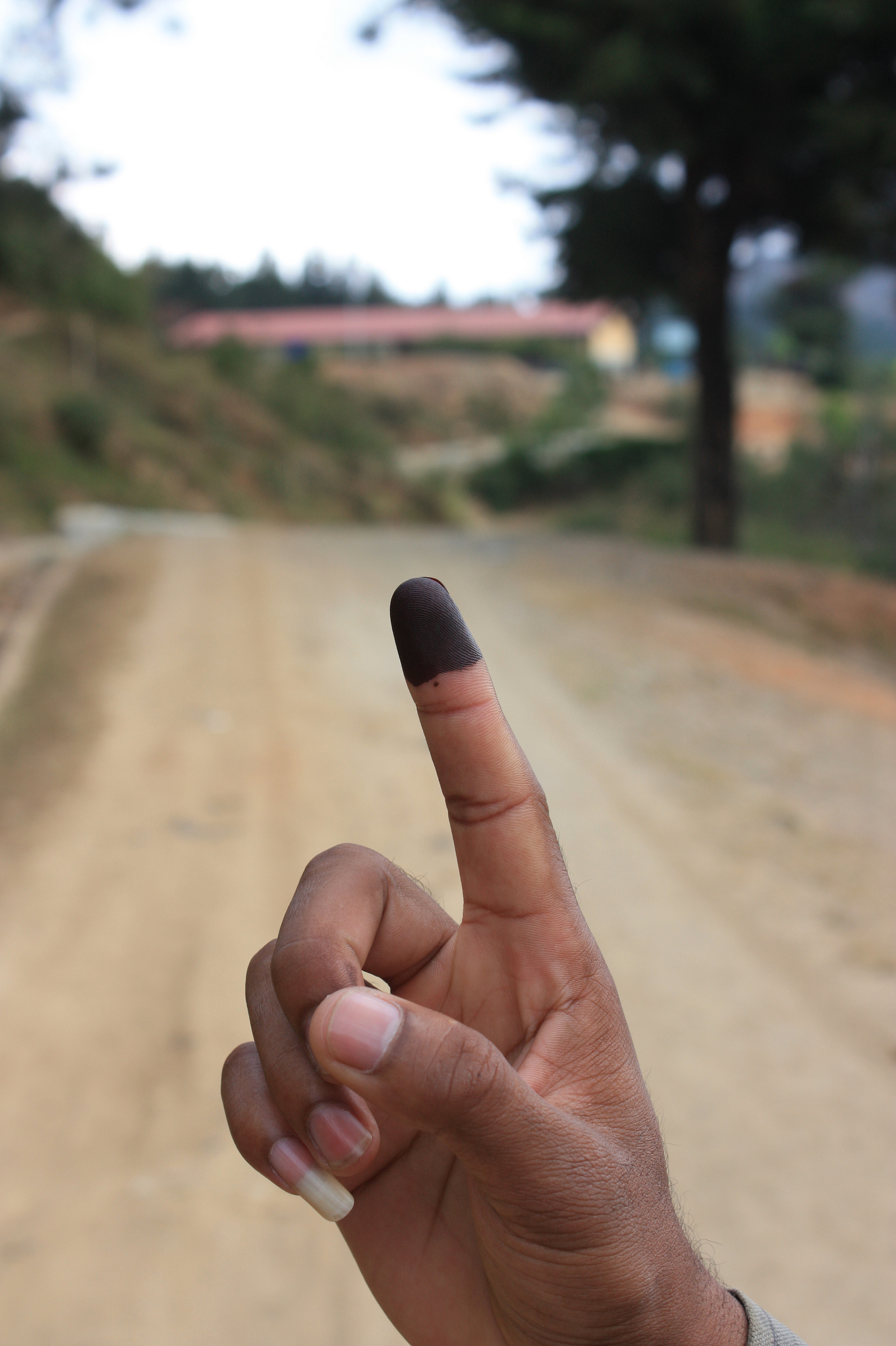 Timor-Leste Election Day: Inked finger after election